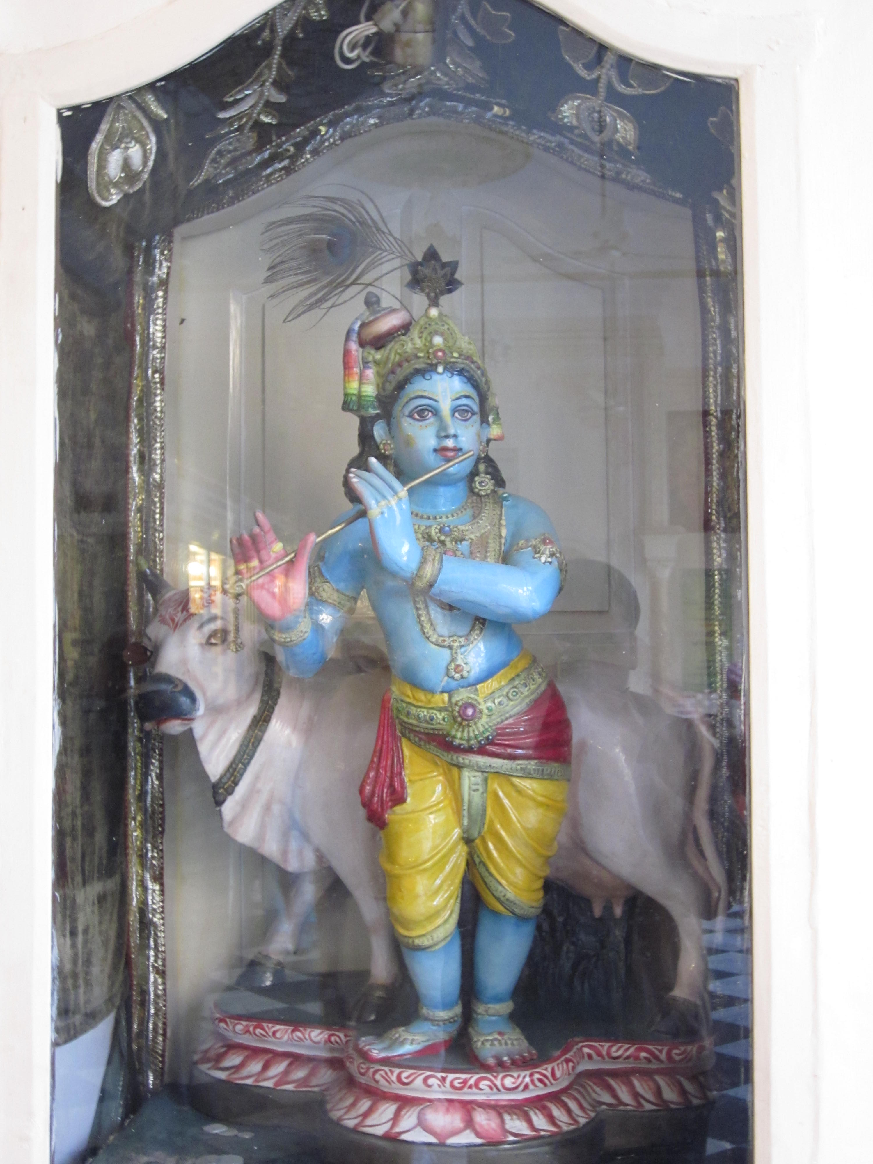 Krishna